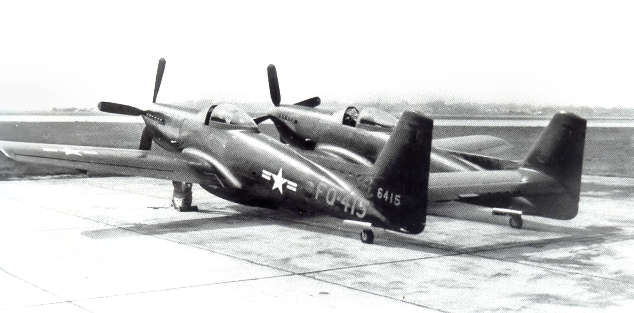 52d Fighter Group (All Weather) F-82F Twin Mustang 46-415, Mitchel AFB, New York, September 1949. In May 1950, airraft was modified to F-82G configuration at the McClellan AFB, California depot and sent to Far East Air Forces and served with the 68th Fighter Squadron in Japan, being used in combat during the Korean War.